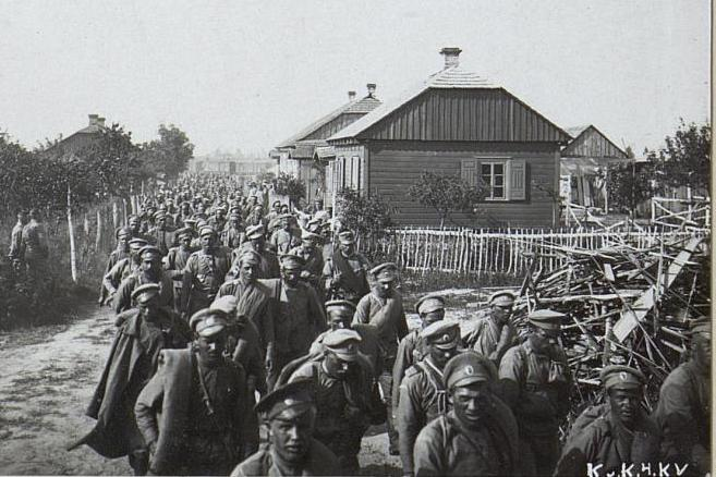 Russian POW's of World War I